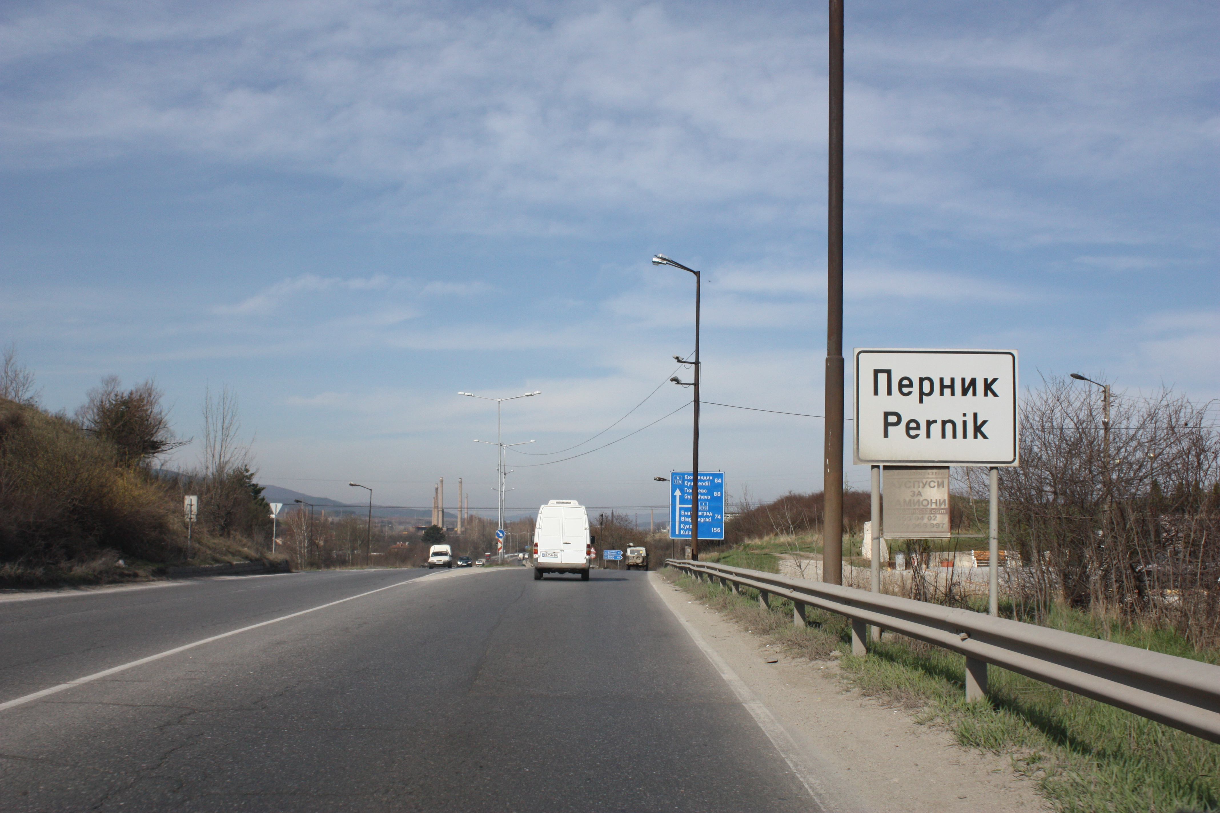 Pernik, Bulgarien, On the road from Sofia Center to Rilski manastir